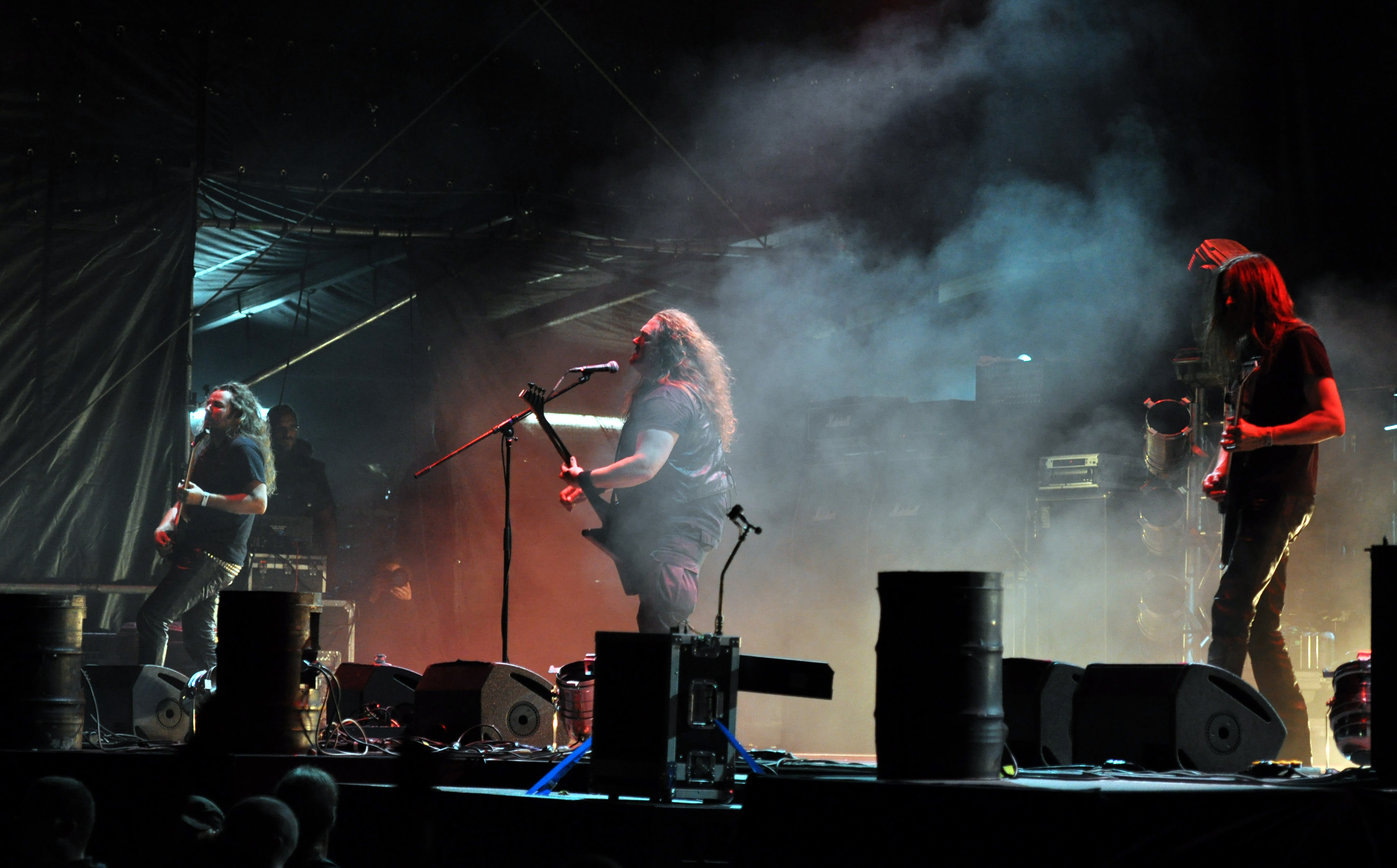 Unleashed at Party.San Metal Open Air 2013